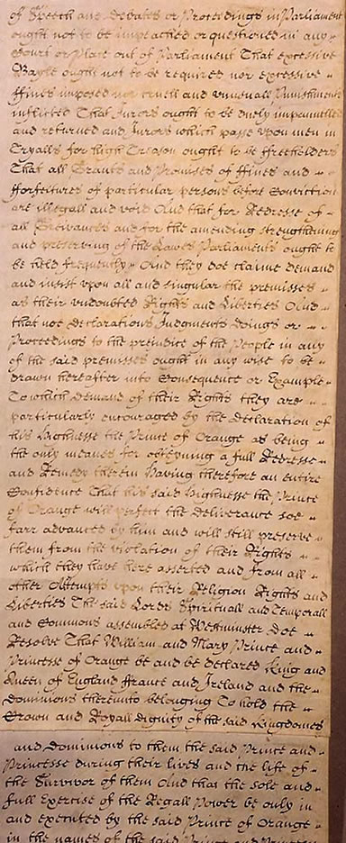 This is a closeup of the bottom portion of the English Bill of Rights of 1689.